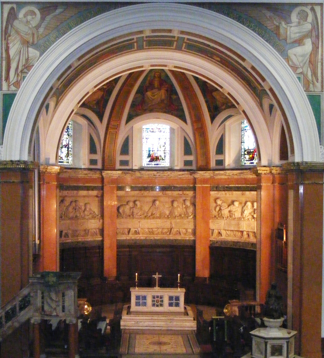 Interior of St Cuthbert's Parish Church looking towards the east end